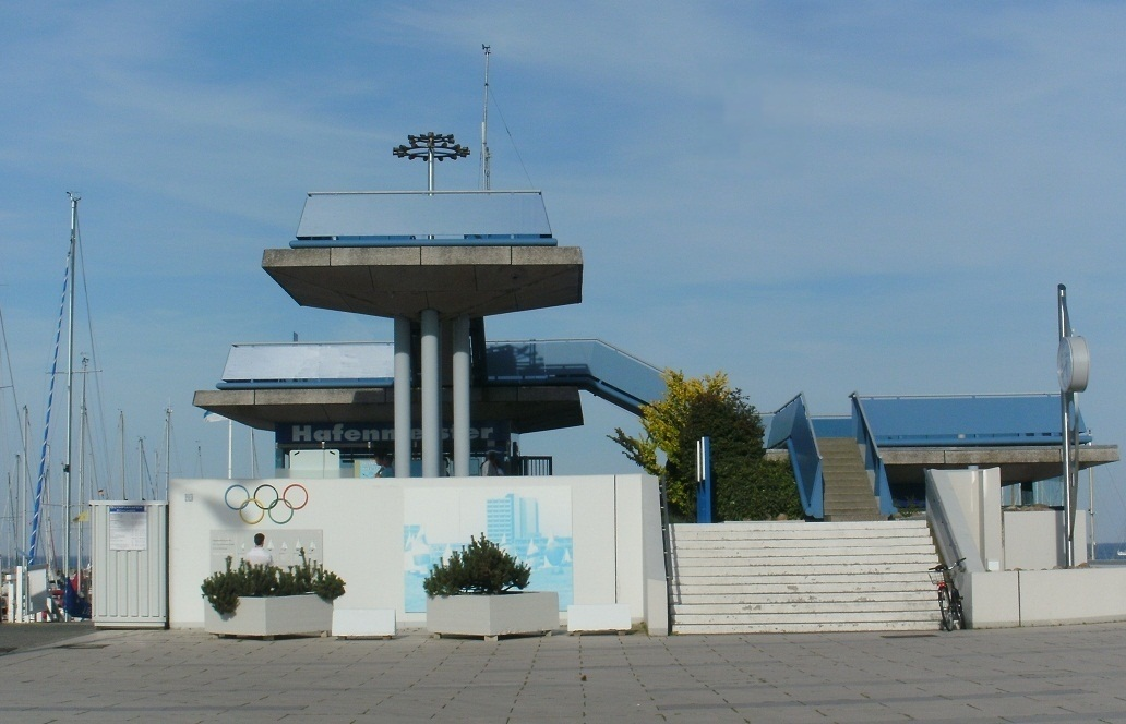 Olympic Cauldron in Kiel-Schilksee for the 1972 Olympic Games